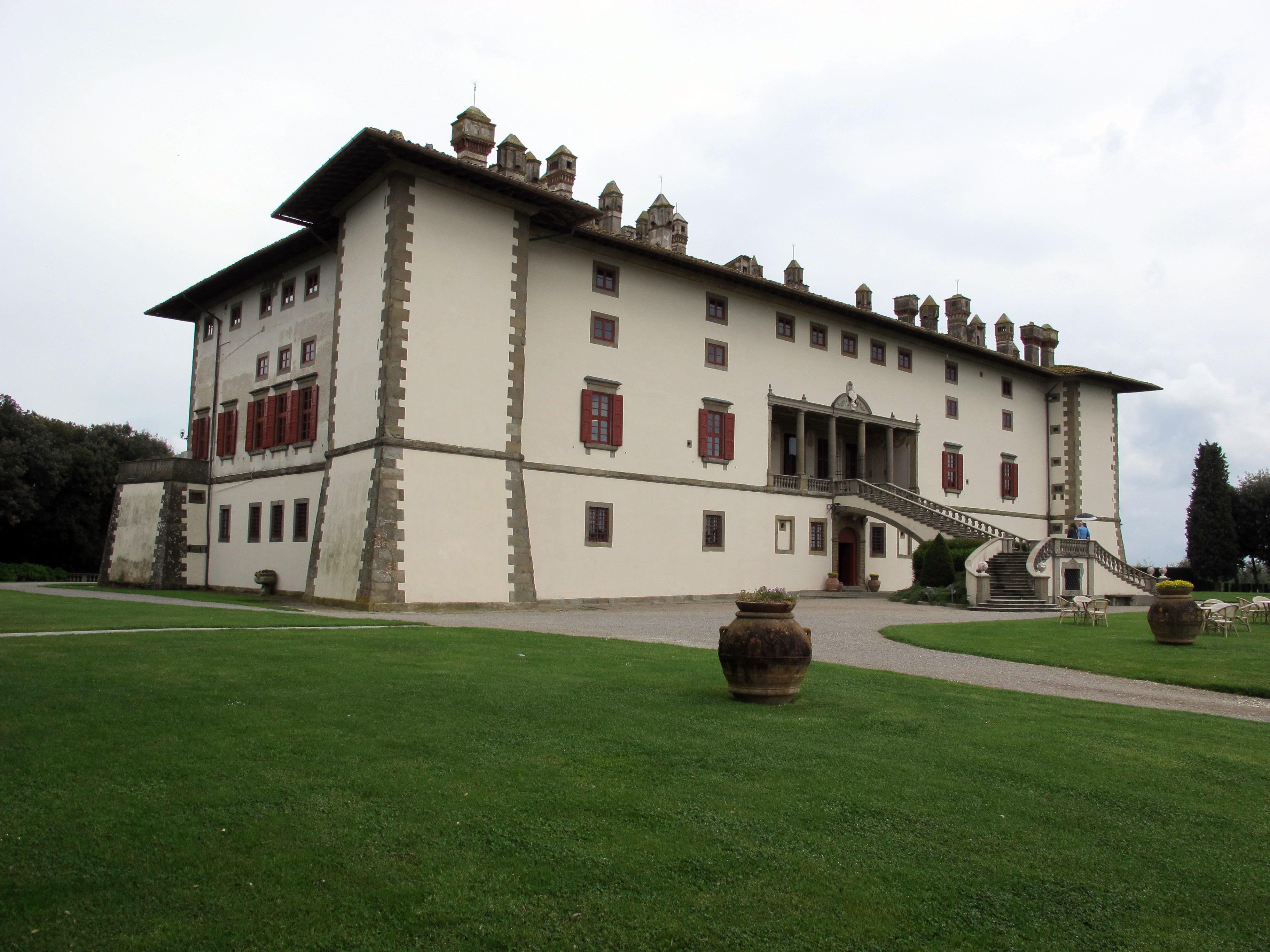 Medici Villa of Artimino